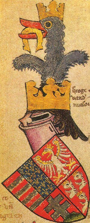 Louis I of Hungary and Poland. Crest: ostrich holding in its beak a horseshoe